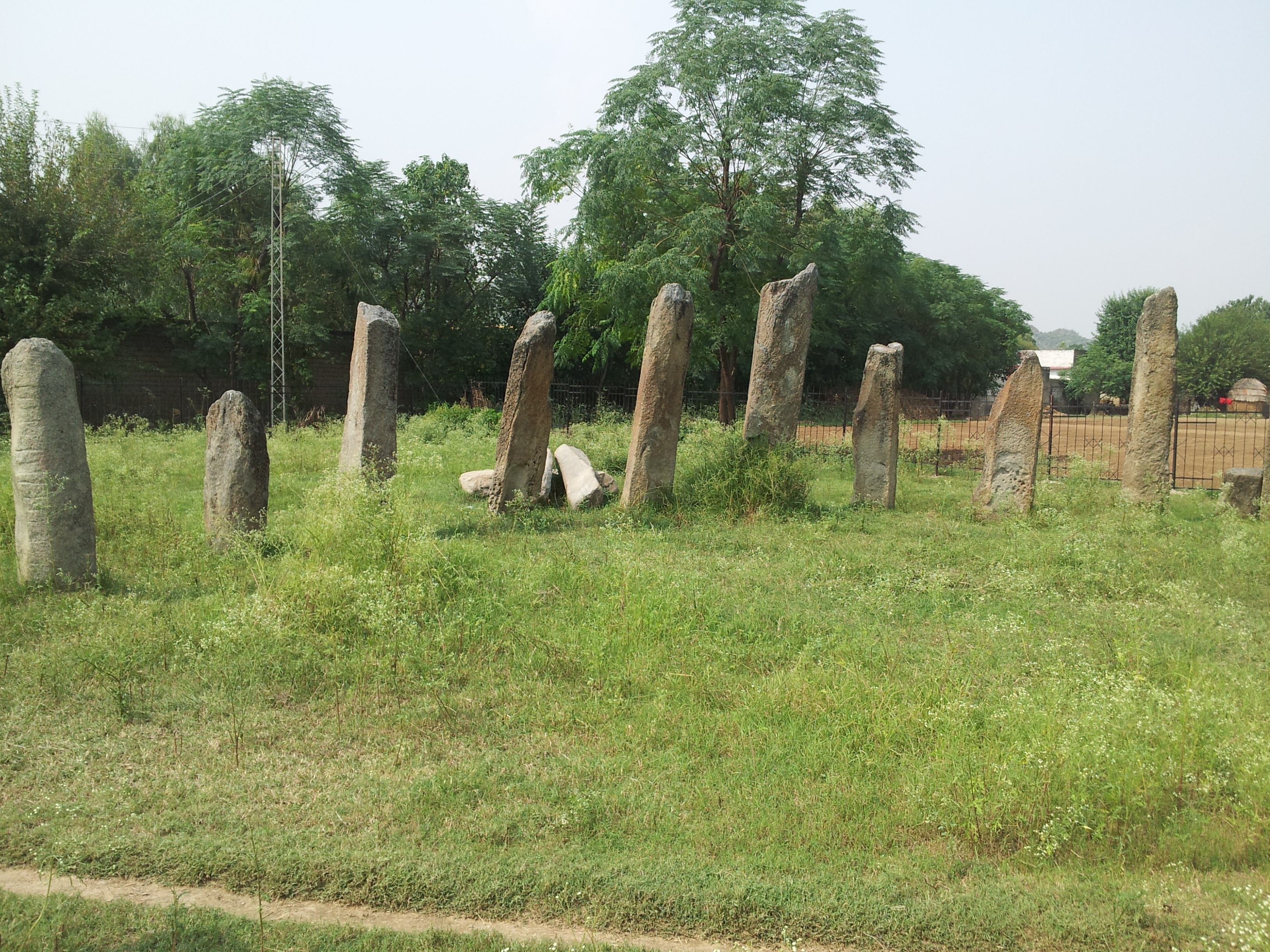 Stone circle This is a photo of a monument in Pakistan identified as the KPK-36